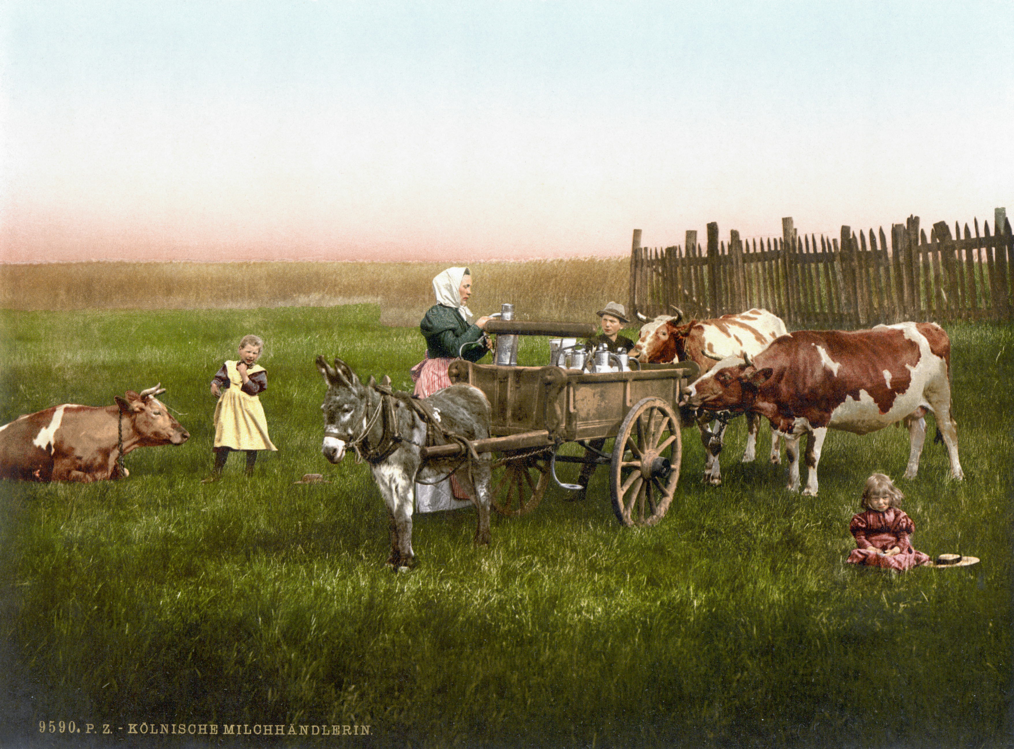 Milksellers in Cologne, the Rhine, Germany, 1890-1900